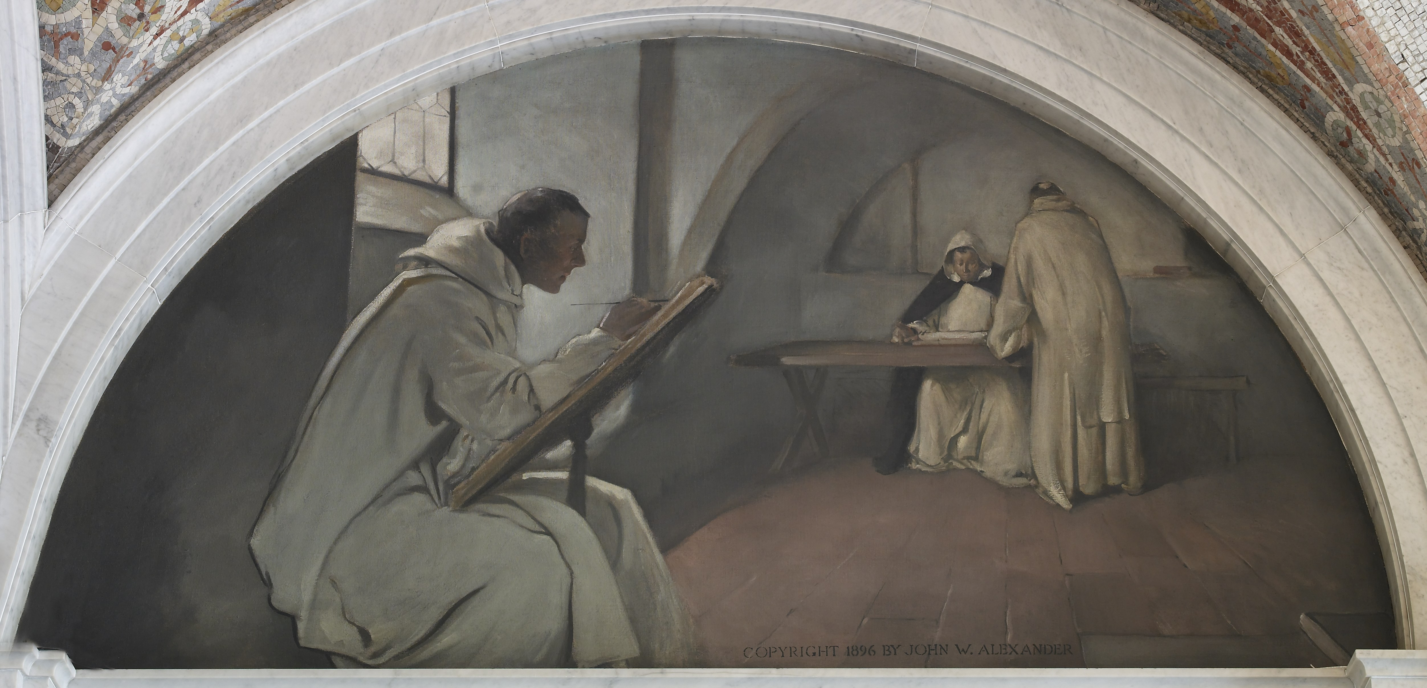 East Corridor, Great Hall. Manuscript Book mural in Evolution of the Book series, John White Alexander. Library of Congress Thomas Jefferson Building, Washington, D.C.